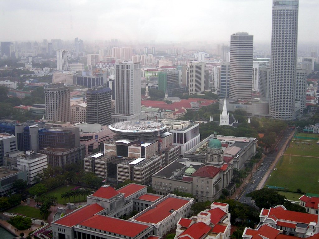 An aerial view of the Downtown Core of Singapore. In the centre of the photograph are the Supreme Court of Singapore (with the disc-shaped structure on top), the Old Supreme Court Building (with the dome) and the City Hall Building behind it, St. Andrew's Cathedral (white spire) and, in the foreground, Parliament House, Old Parliament House and Empress Place Building (reddish-brown roofs). The open space on the right is the Padang.